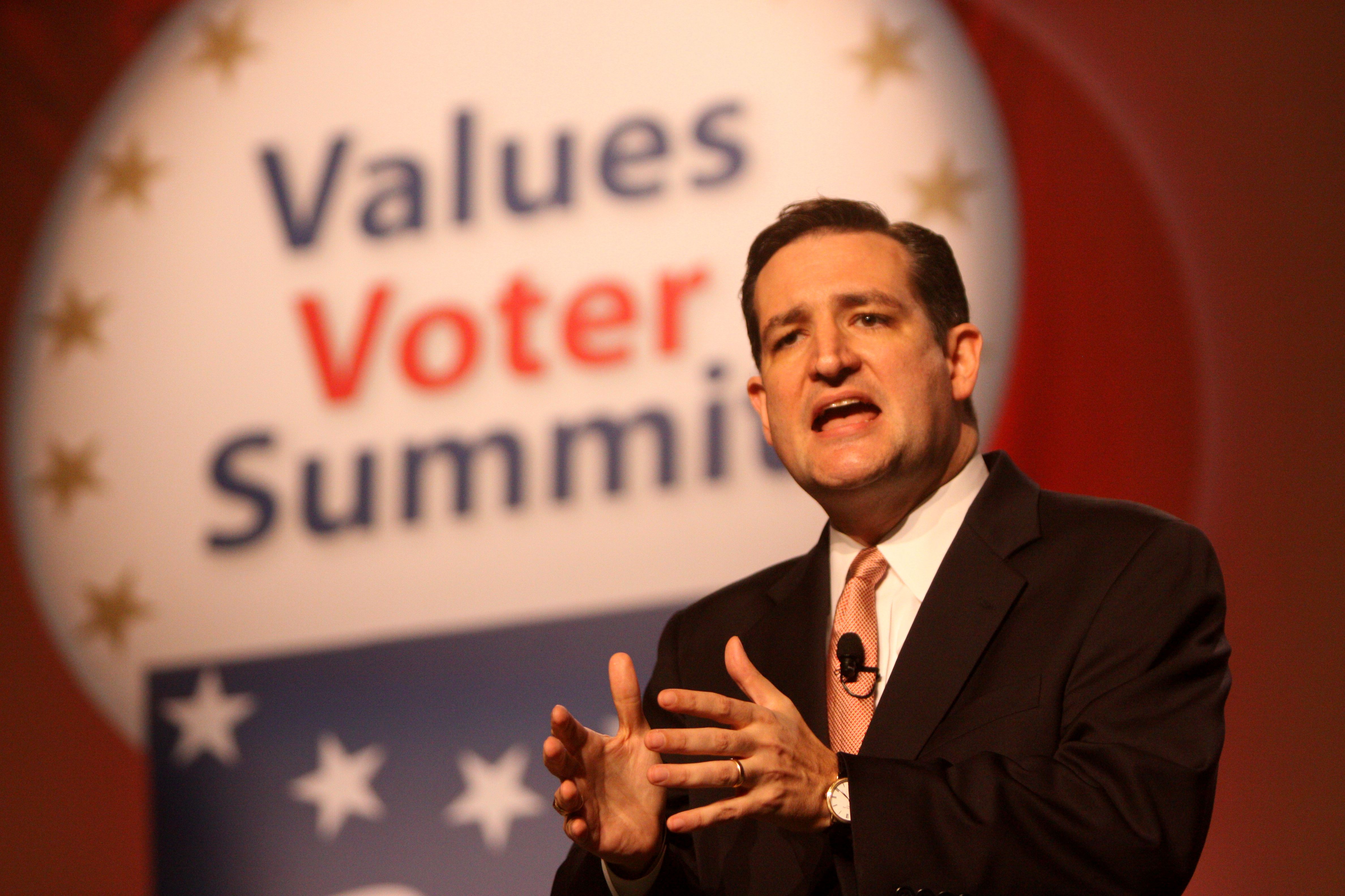 Ted Cruz speaking at Values Voter Summit in Washington D.C. on October 7, 2011.